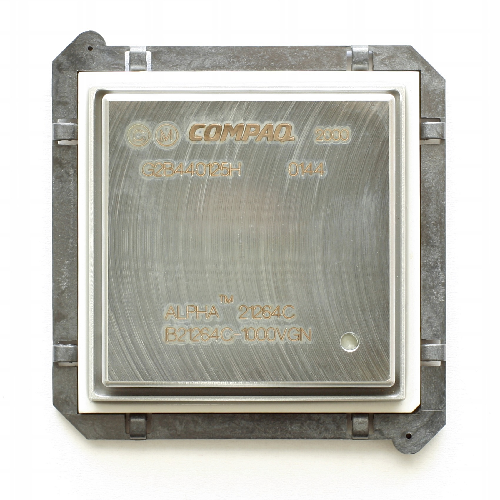 CPU Compaq Alpha 21264C (DEC Alpha 21264)